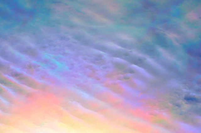 Iridescent Altocumulus stratiformis undulatus lacunosus cloud